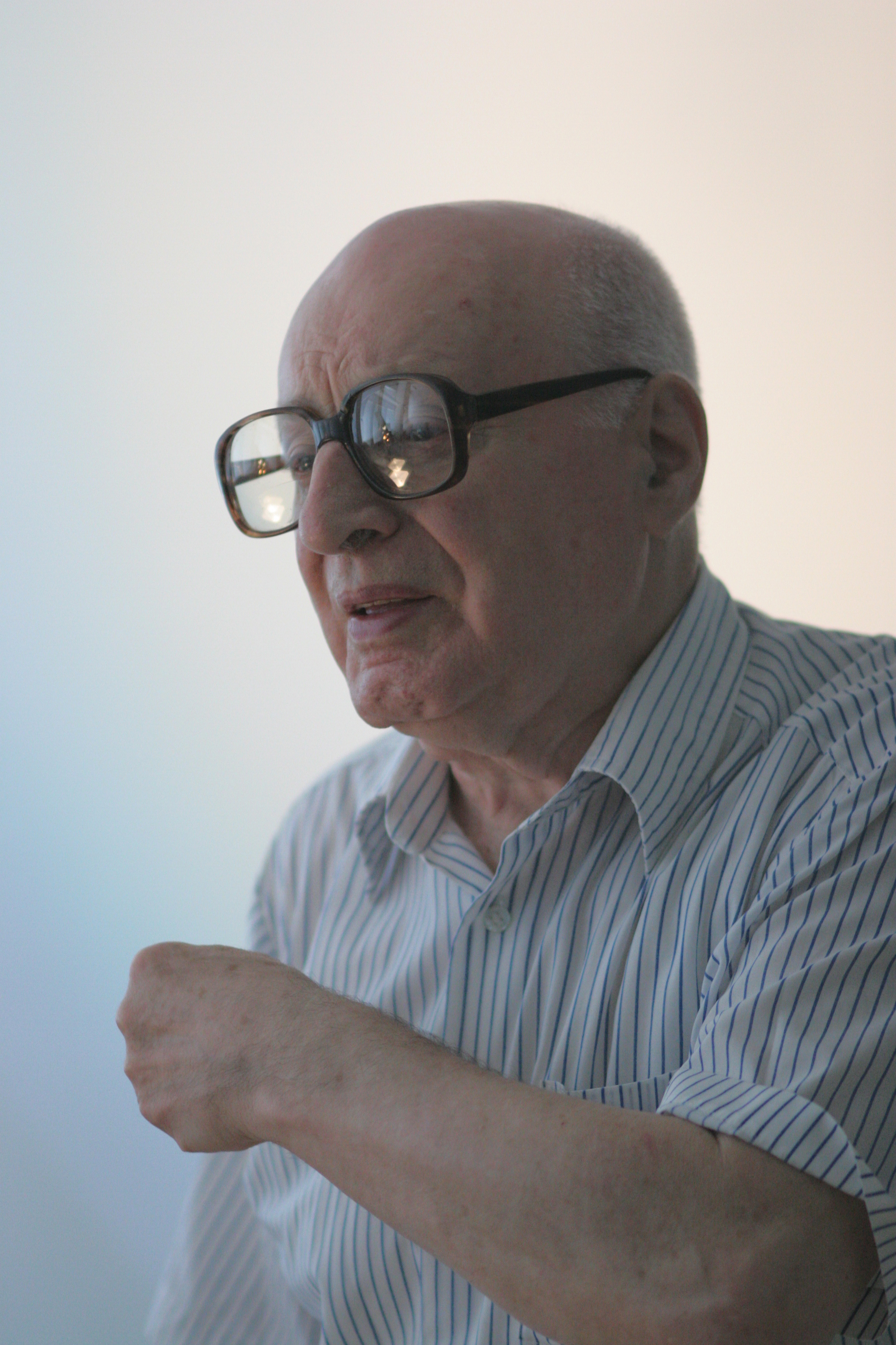 Portrait of Academician Solomon Marcus.